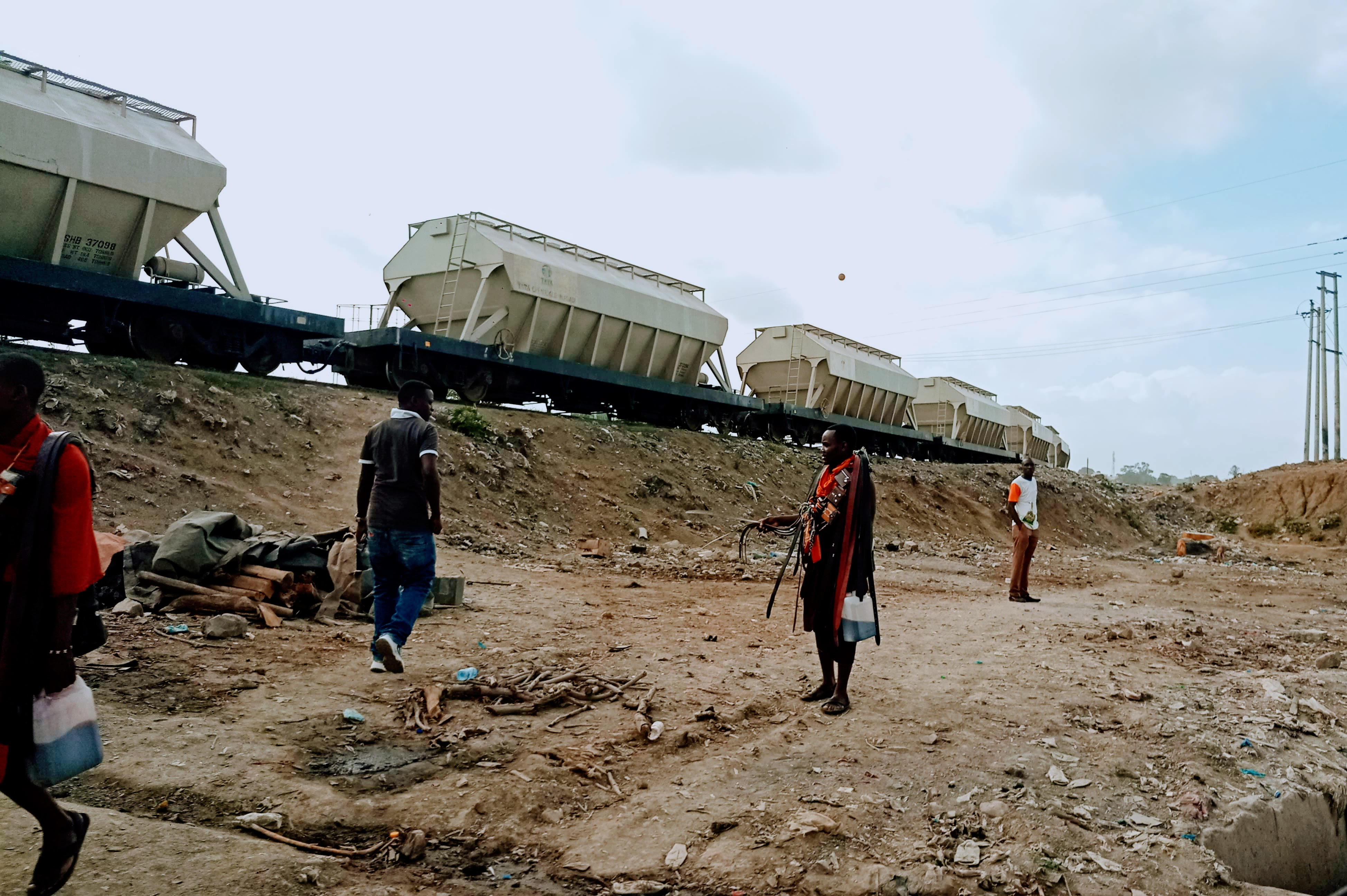 A train carrying Magadi Soda enroute to the port of Mombasa passes through Makupa Causeway. This is the most popular way in by road into the island from the capital city Nairobi. Meanwhile, a man attempts to sell authentic leather wares to a potential customer on his way to work. This is an image with the theme "Africa on the Move or Transport" from: Kenya